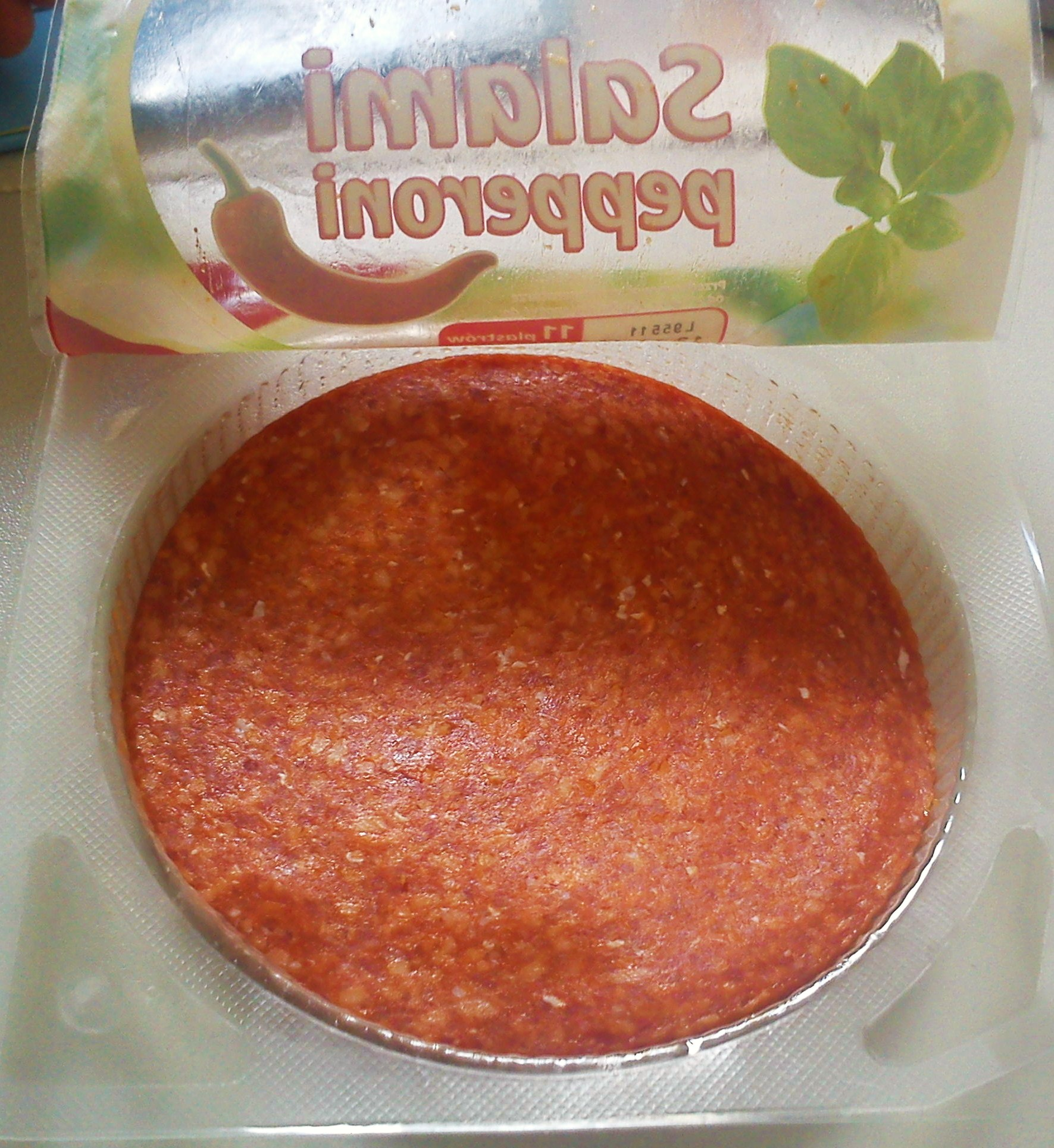 Salami pepperoni produced by Zimbo